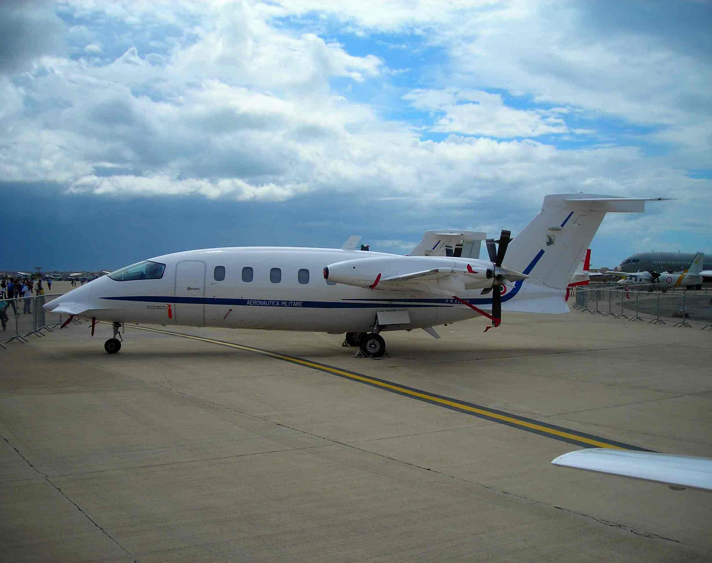 It is a Piaggio P-180 Avanti business aircraft used by Italian Air Force. Picture taken during "Giornata Azzurra" 2006 (Italian Air Force airshow) at Pratica di Mare AFB, Italy.